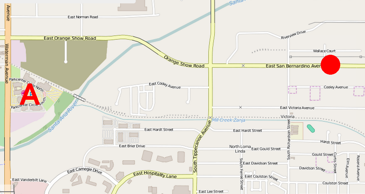 2015 San Bernardino shooting map showing site of shootout. Coordinates shown at this page are for the shootout location indicated with a red dot.